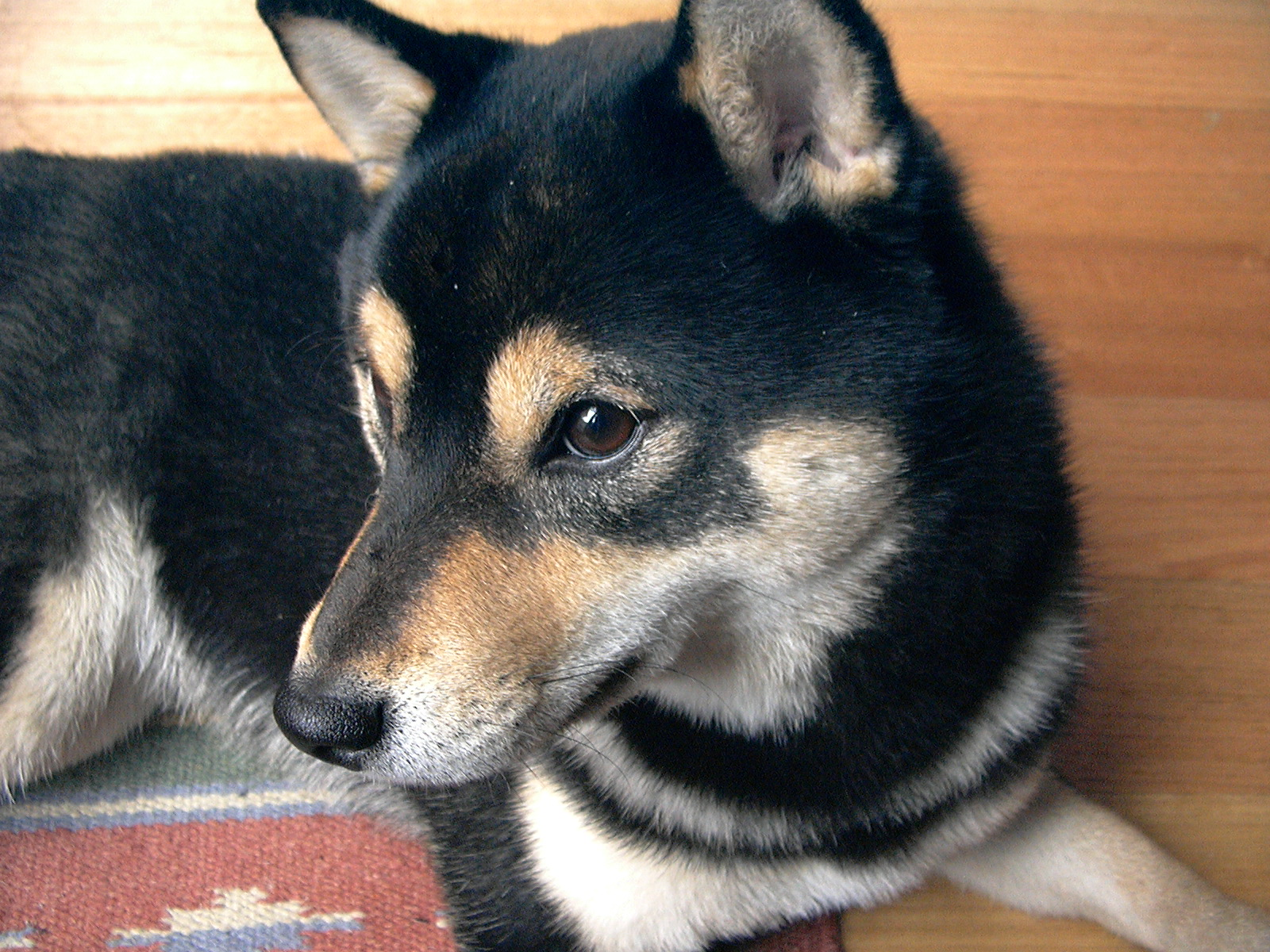 9-month-old Black and Tan Shiba Inu, showing face markings.